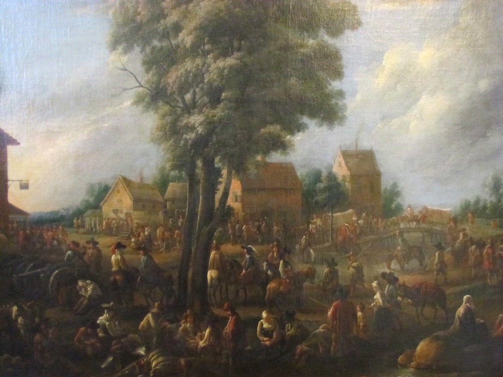 Soldiers resting in a village